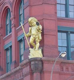 Figure of Puck on Houston & Mulberry corner of Puck Building, NYC; photographed 13 July 2003 by Cjmnyc; Public domain: Copyright disclaimed